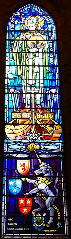 Dornoch Cathedral, Dornoch, Highland, Scotland - stained glass, Saint Gilbert de Moravia (1989, Crear McCartney)